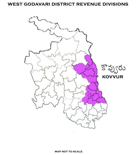 Kovvur revenue division in West Godavari district